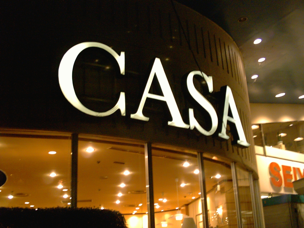 CASA Restaurant_en:Oume-shiOume-city CASA